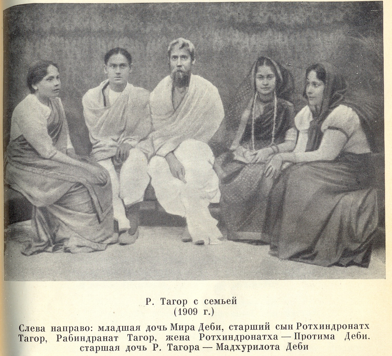 Rabindranath Tagore with family. Left to right: youngest daughter Mira Devi, eldest son Rathindranath Tagore, Rabindranath Tagore, wife of Rathindranath Protima Devi, eldest daughter of R. Tagore Madhurilata Devi